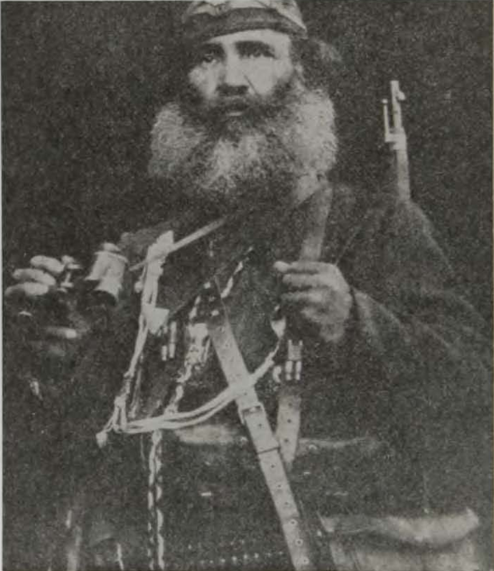 Ivan Kuyumdzhiev